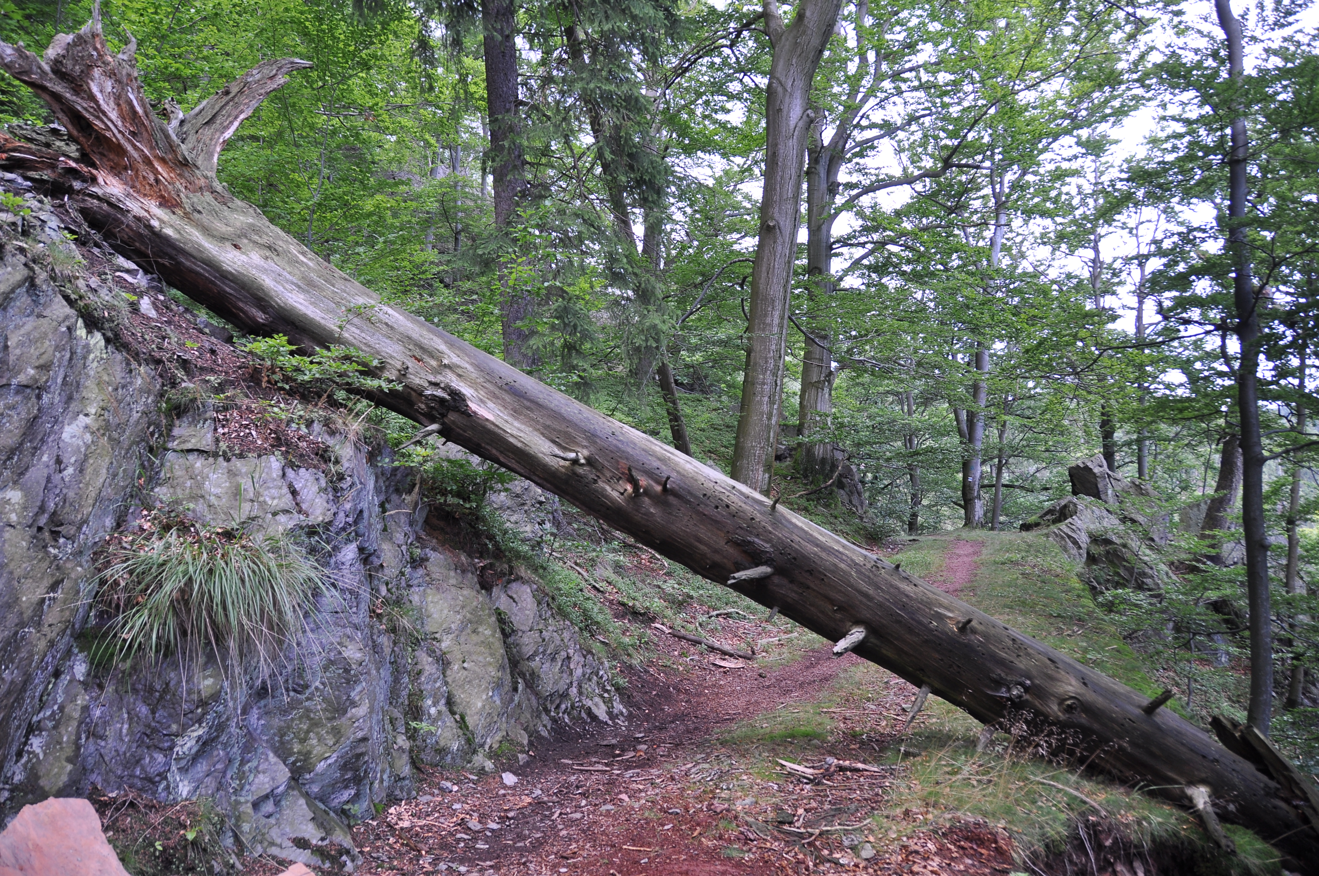 Peklo u Nového Města nad Metují (Nature reserve)